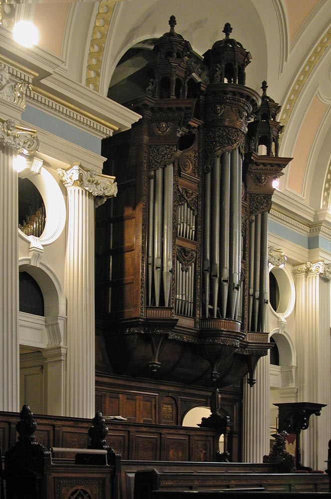 St John at Hampstead, Church Row, London NW3 - Organ, near to Hampstead, Camden, Great Britain.